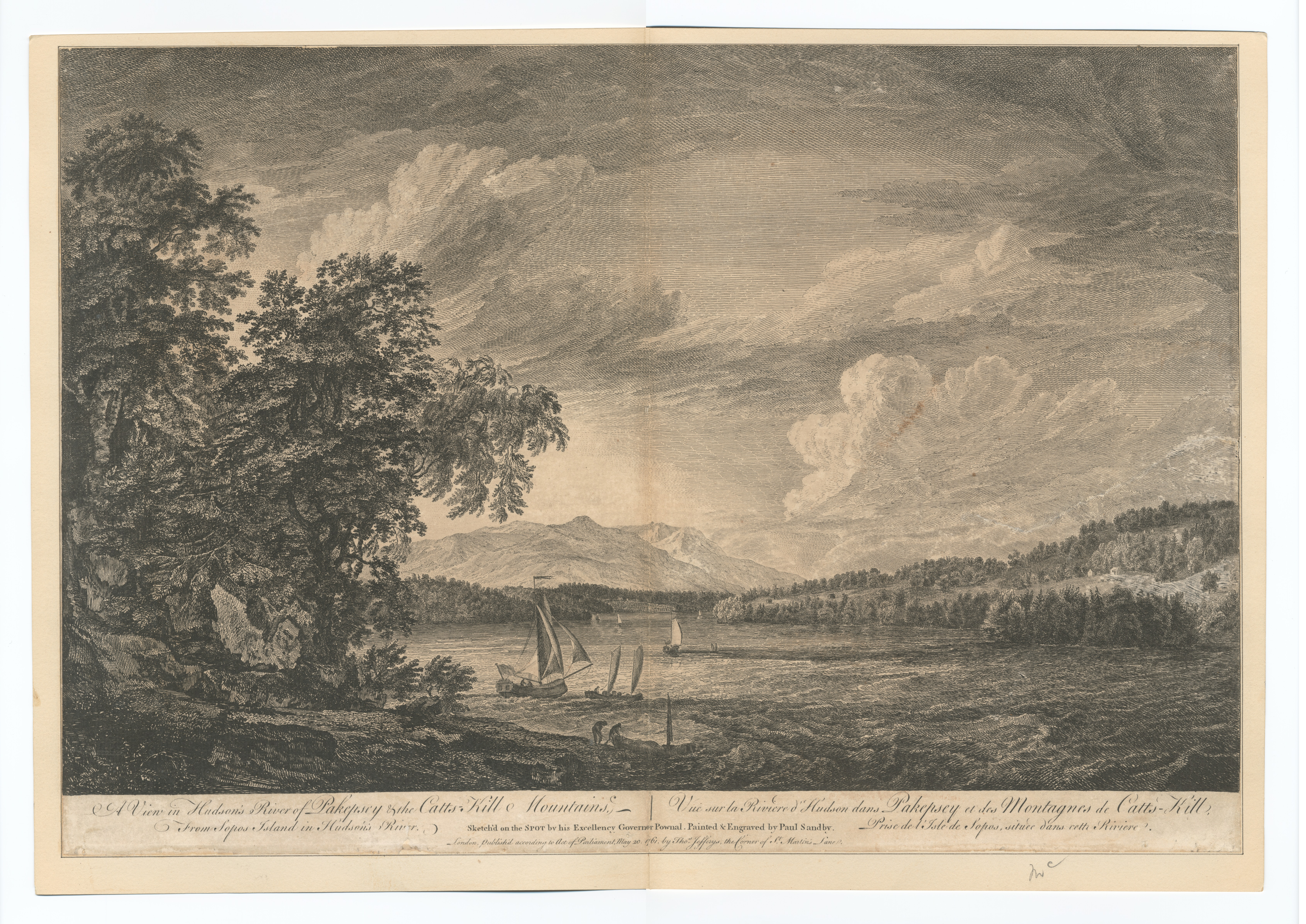 Includes some photomechanical reproductions. Title from Calendar of the Emmet Collection. EM8843